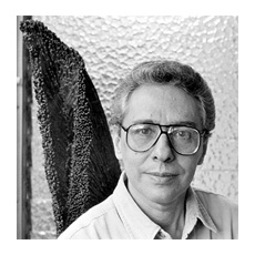 José balza. escritor venezolano